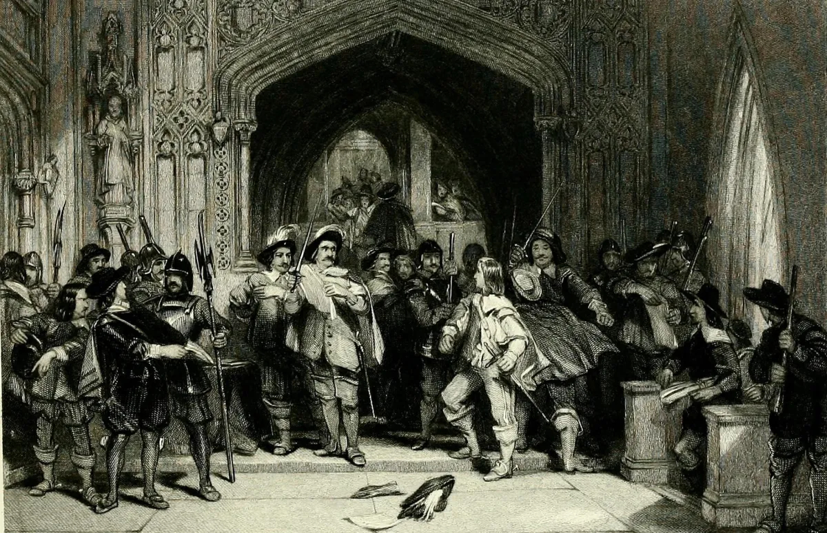 COLONEL PRIDE REFUSING ADMISSION TO THE PRESBYTERIAN MEMBERS OF PARLIAMENT Pride's Purge